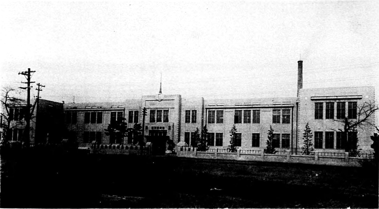 The front of the Institute for Research in Physical Education, Japan, ca. 1930